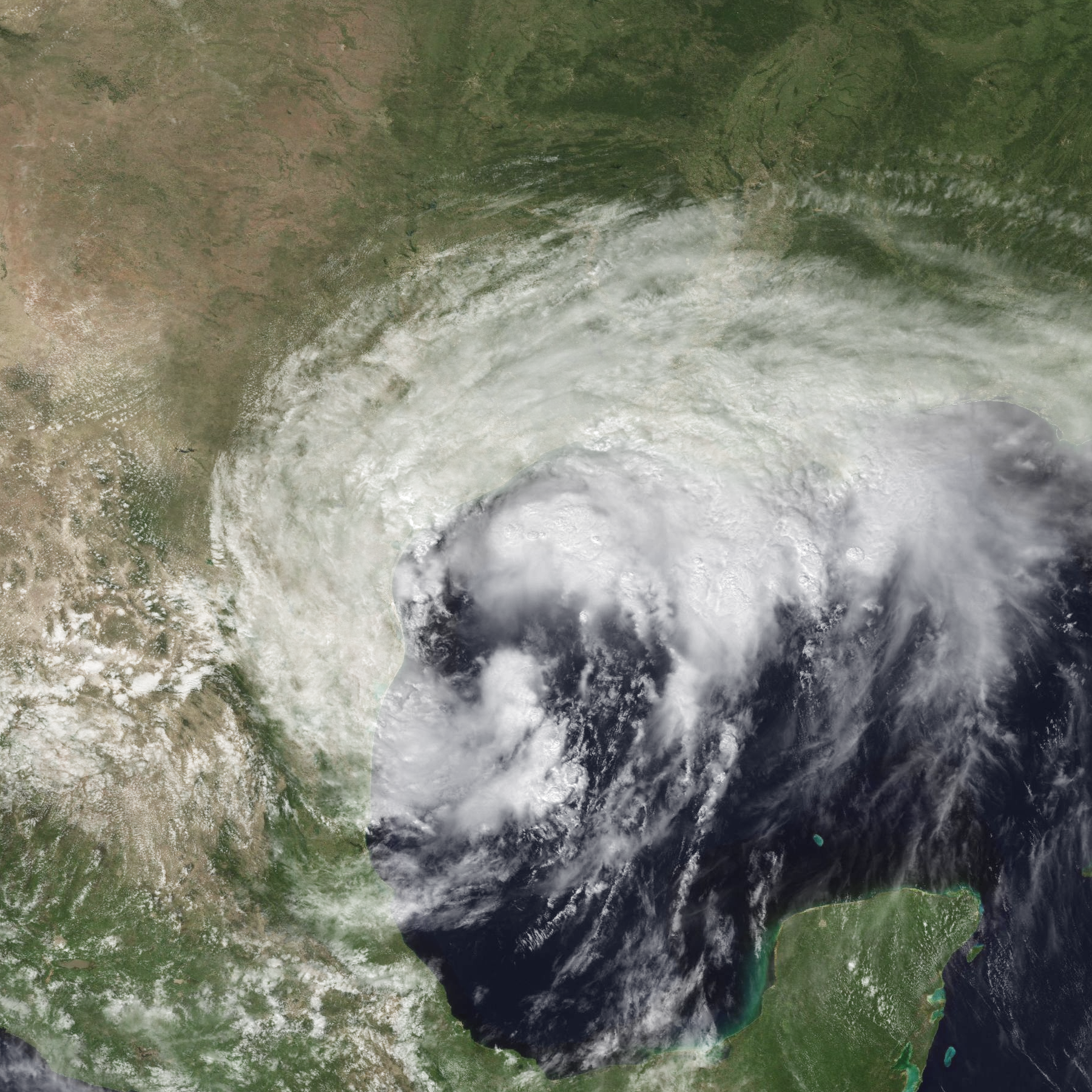 Tropical Storm Frances near peak intensity off the coast of Texas on September 10, 1998